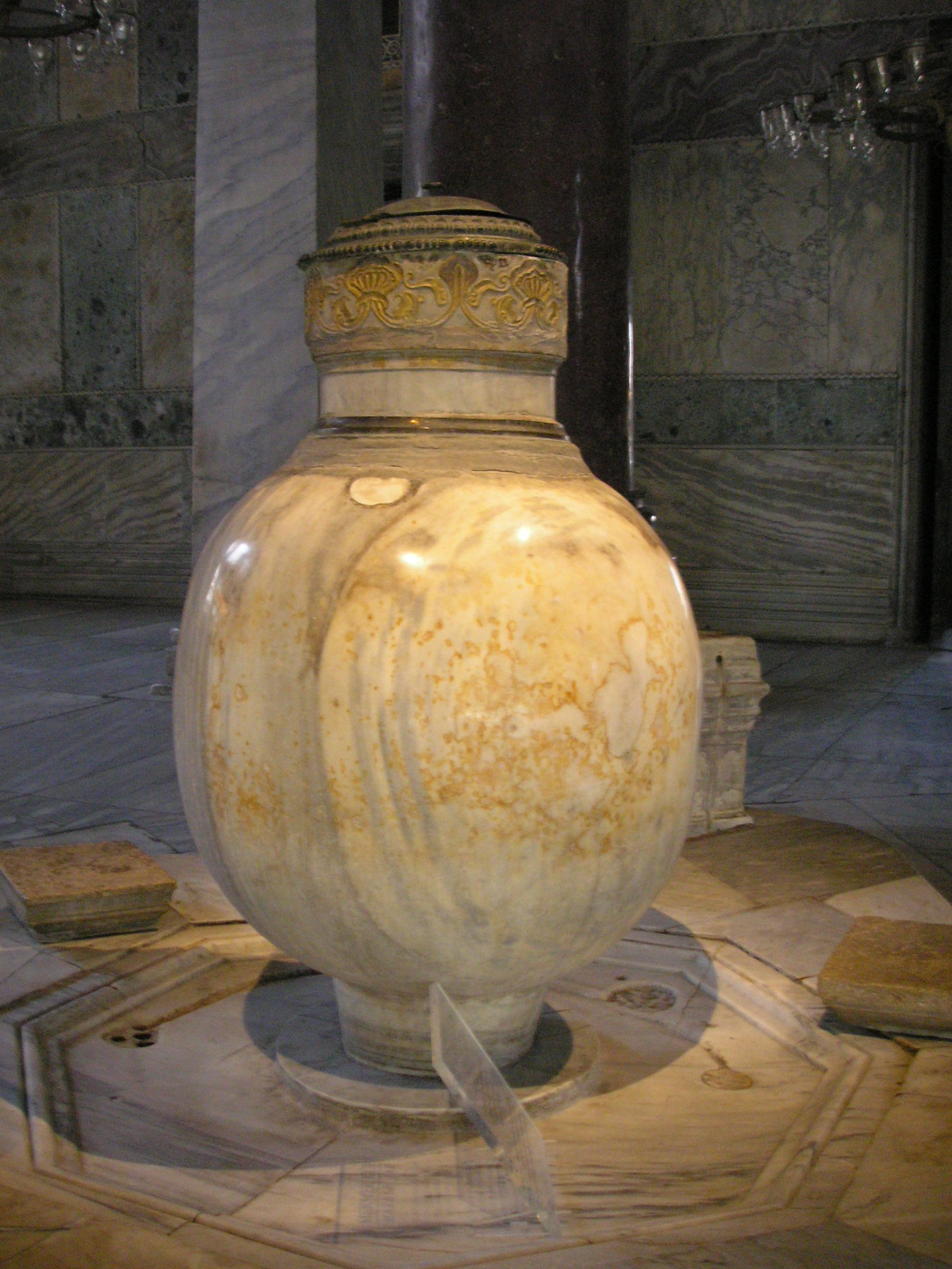 The Marble Jar was brought from Pergamon during the reign of Murad III. Originally from the Hellenistic period, it was carved from a single block of marble.